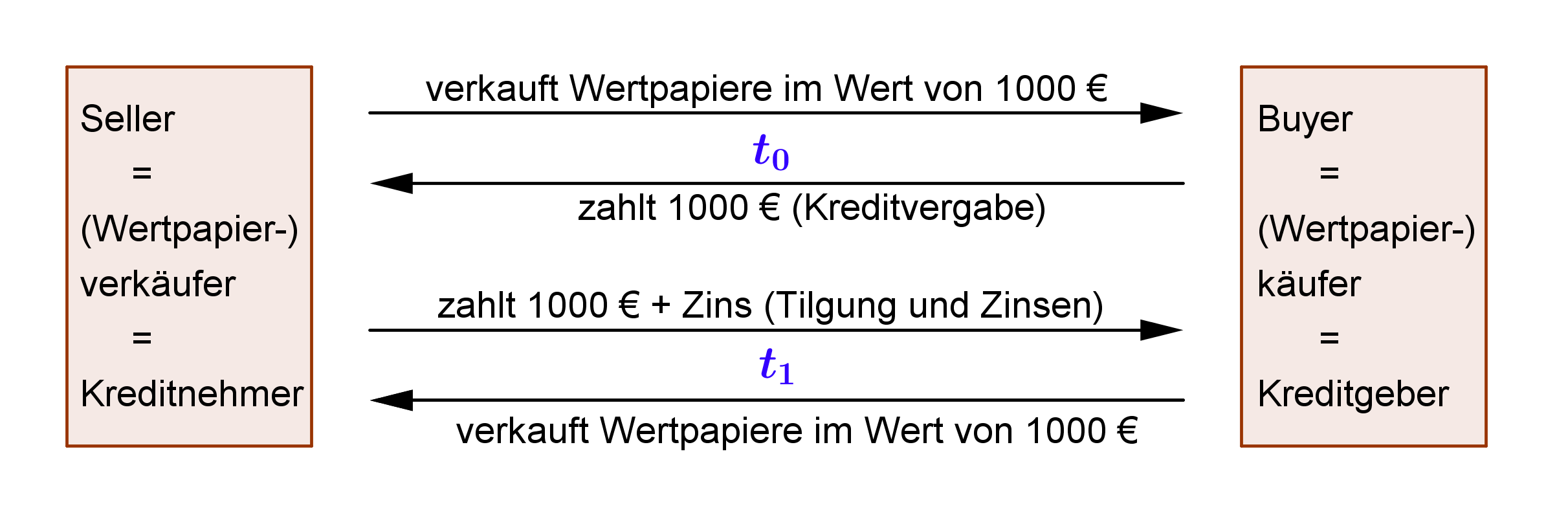 Classic Repo transaction